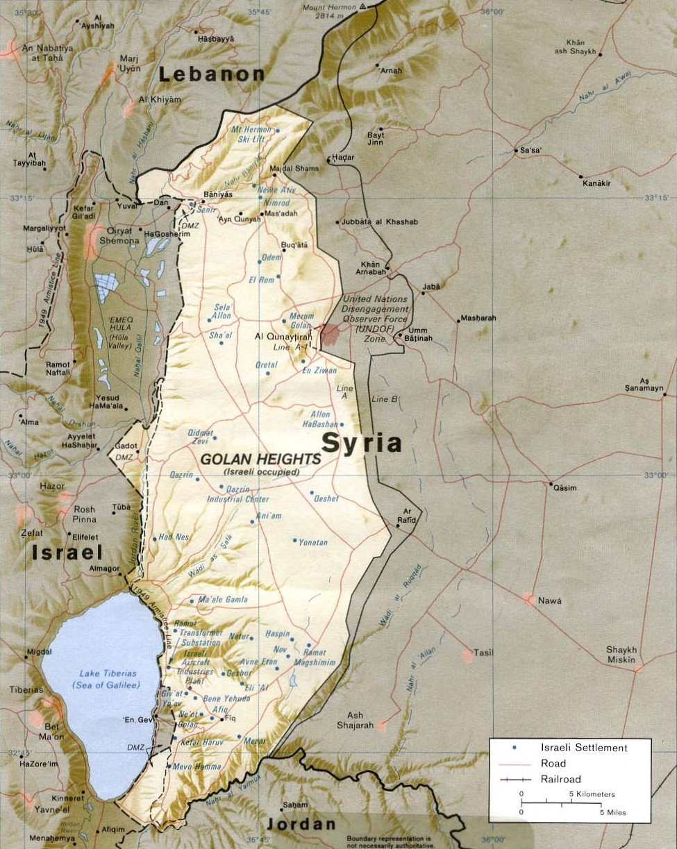 CIA map of the Golan Heights showing Israeli settlements and Syrian villages as of 1989